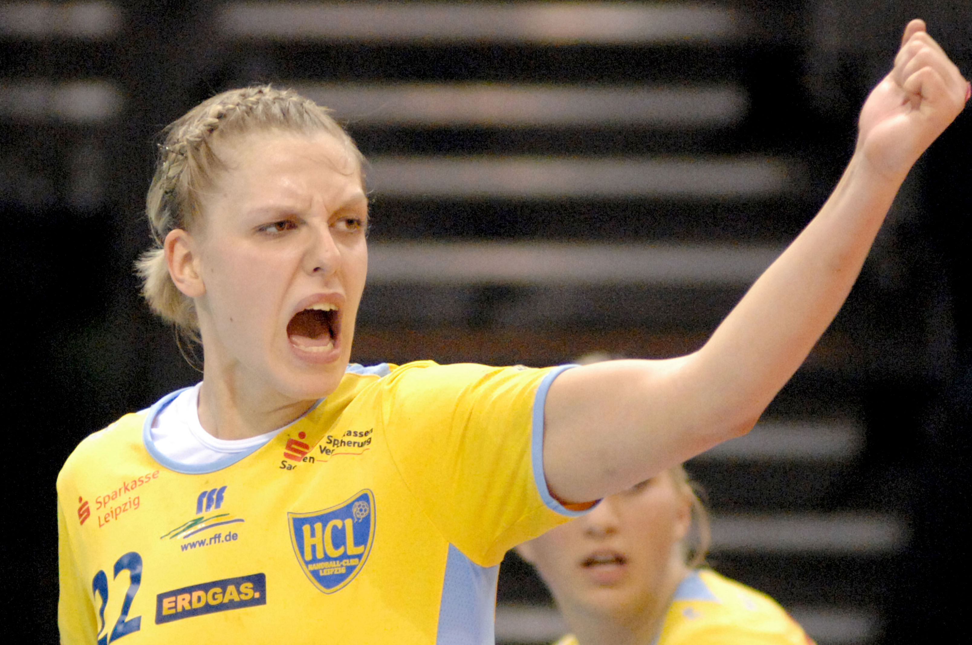 German handballplayer Susann Müller